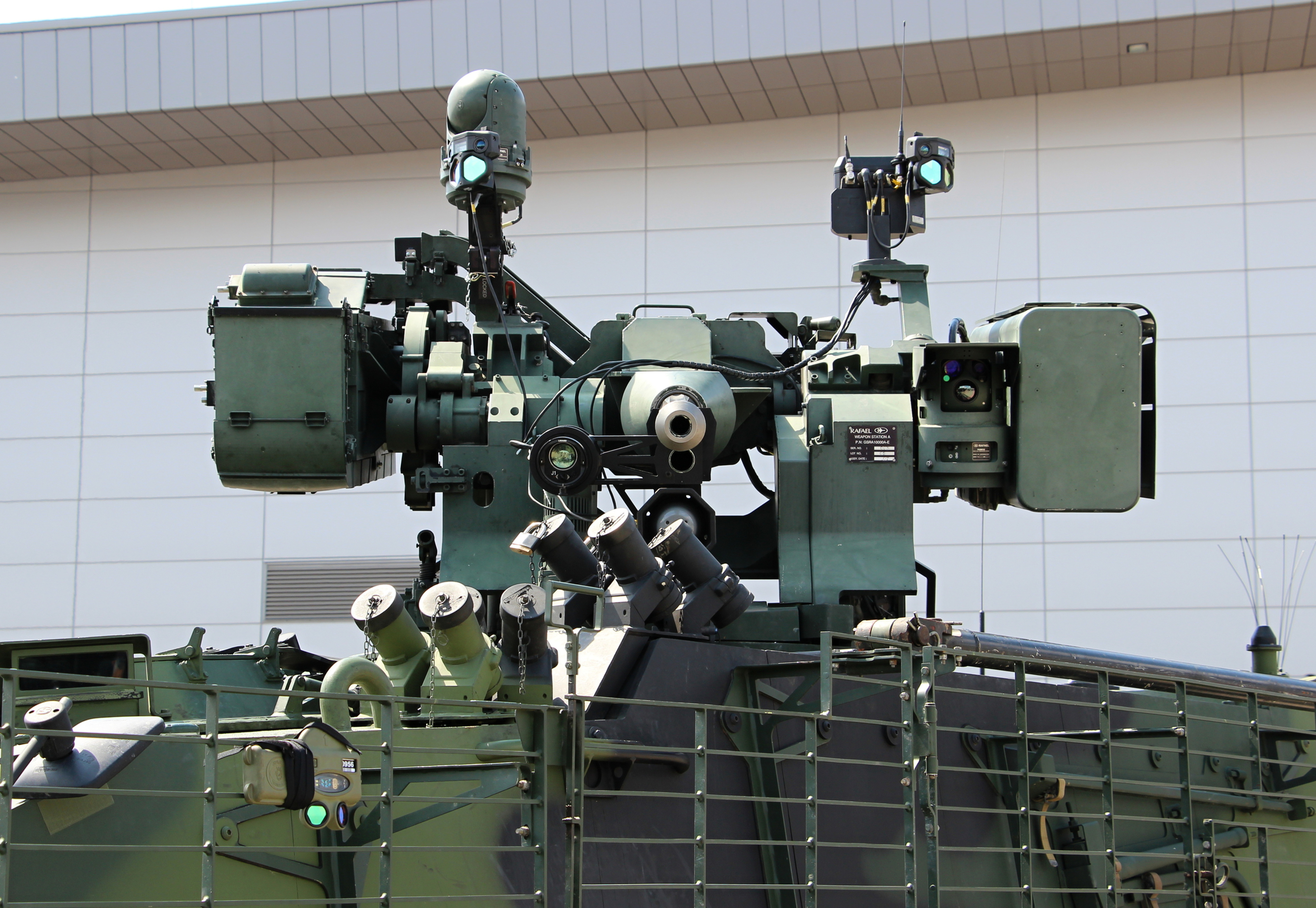 Czech Pandur II with Rafael Samson RCWS-30. IDET 2017, Brno Exhibition Center, Czech Republic.